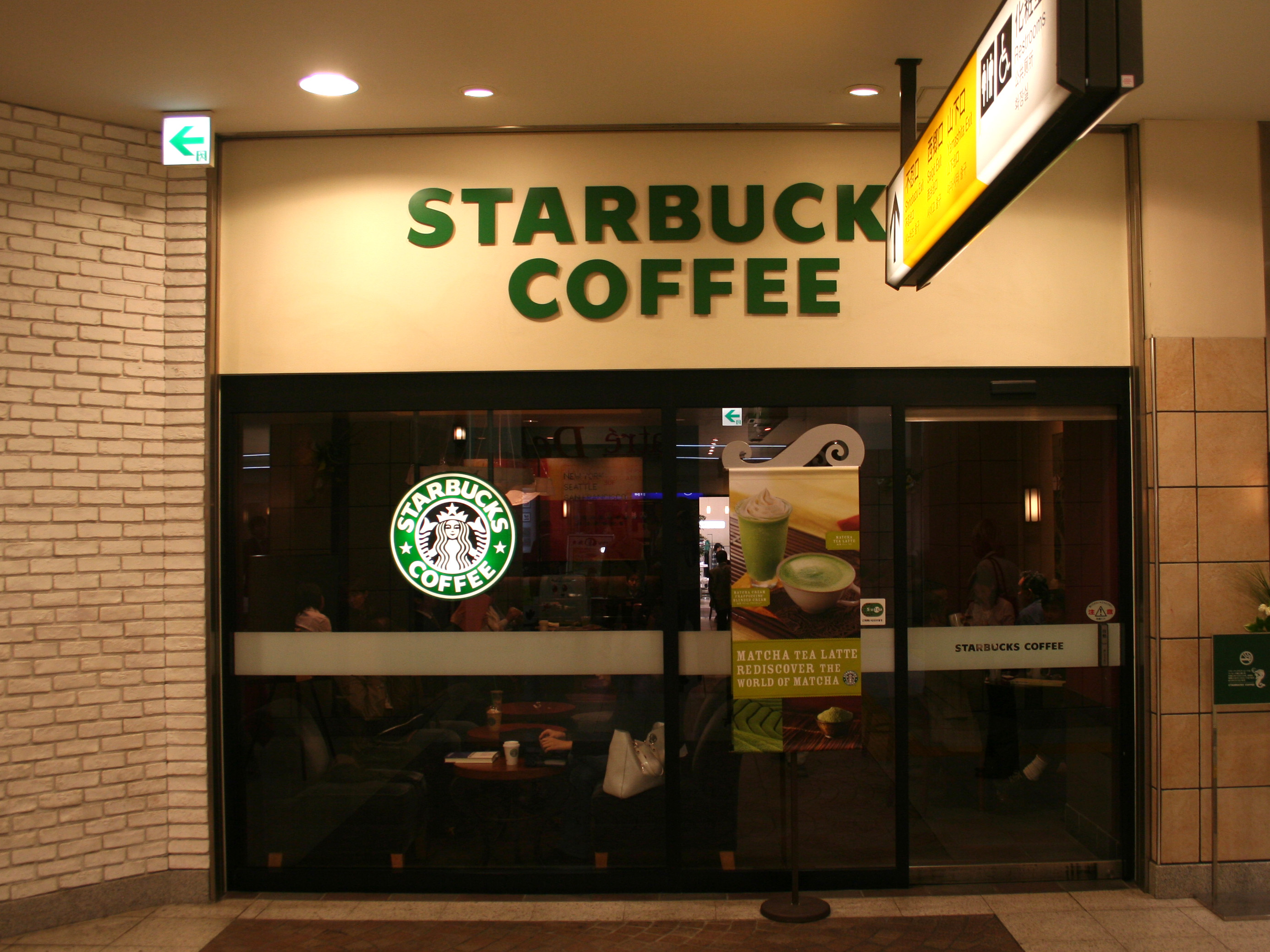 Starbucks at atré Ueno in Tōkyō, Japan